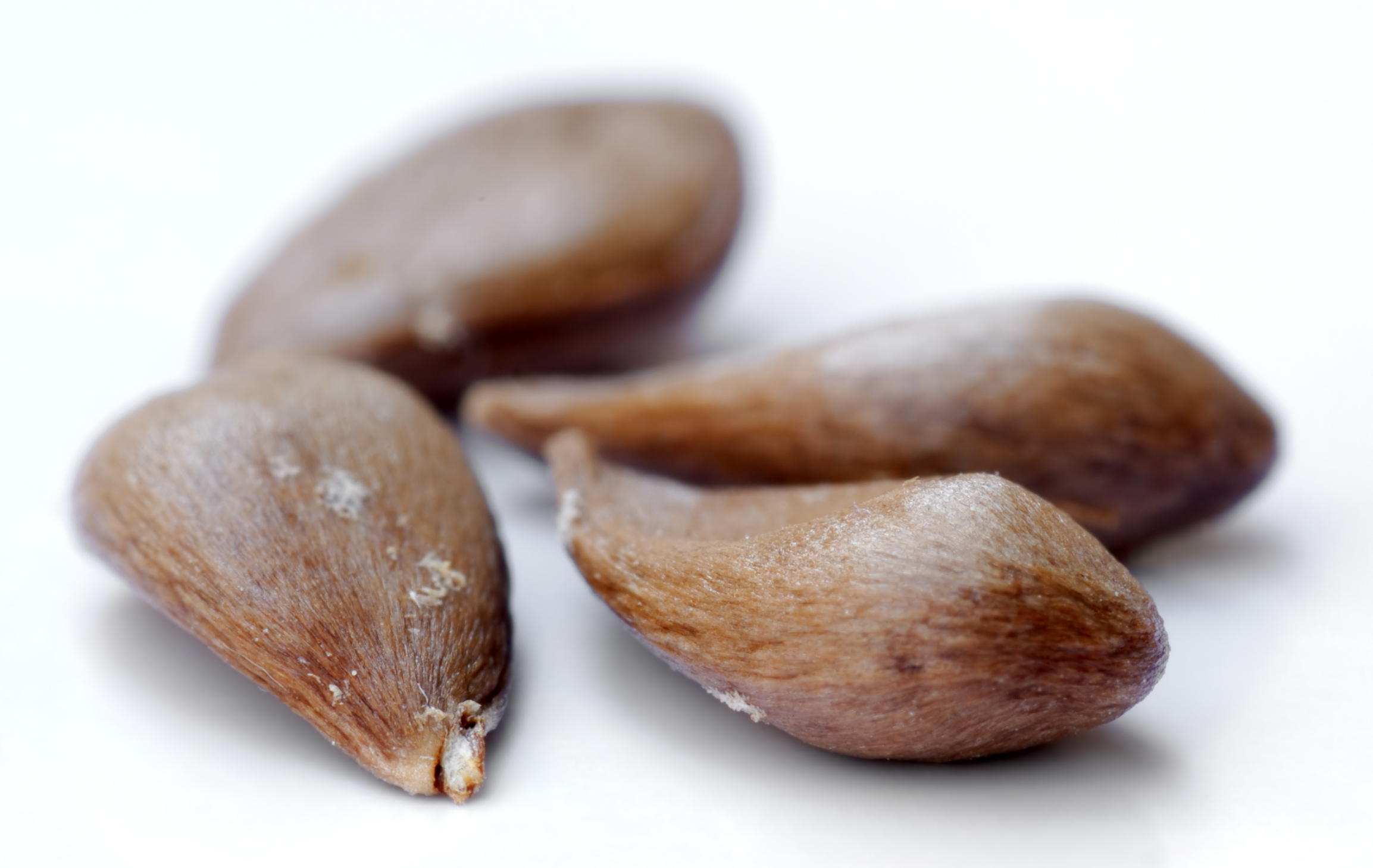 This image shows a few apple seeds of the variety "Gala". The length of each seed is about 8 mm (0.3 inch). Thanks to Conny for providing the objects and for the assistance during the photo session.